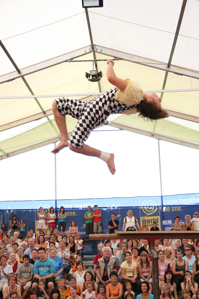 Worldgymnaestrada 2007 in Wolfurt (Austria)